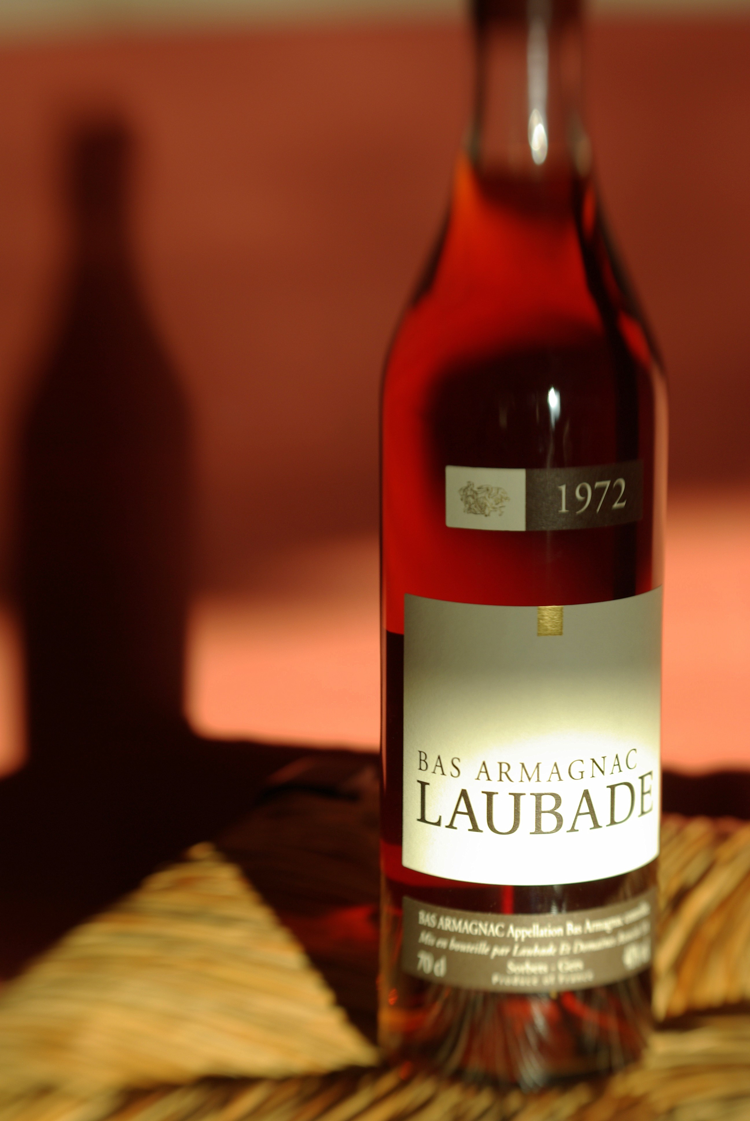 1972 Château de Laubade Bas Armagnac Vintage